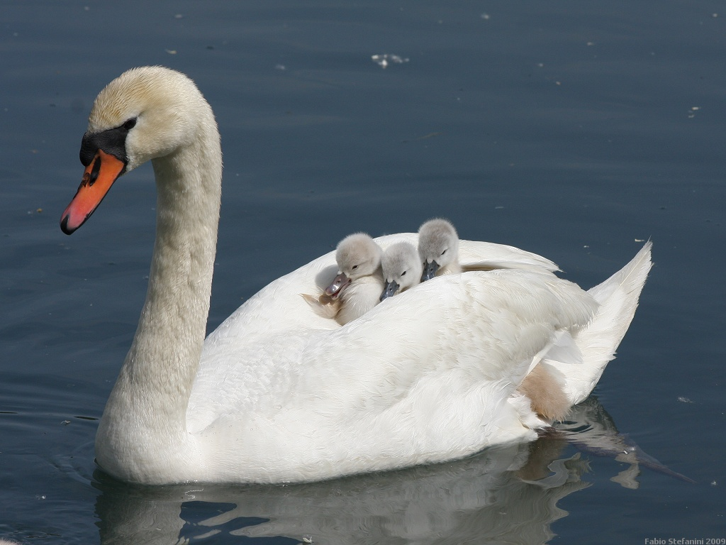 A female of Mute Swan (Cygnus Olor) carrying three of her six cygnets on her back.